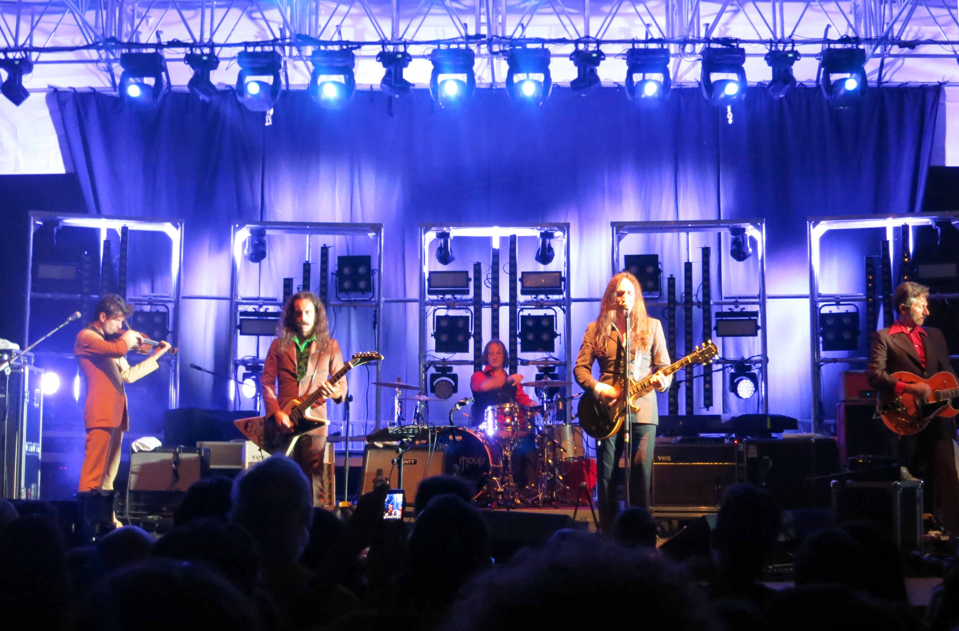 Afterhours - Hai paura del buio Tour 2014, at Metarock Festival - La Cittadella Park, Pisa, Italy